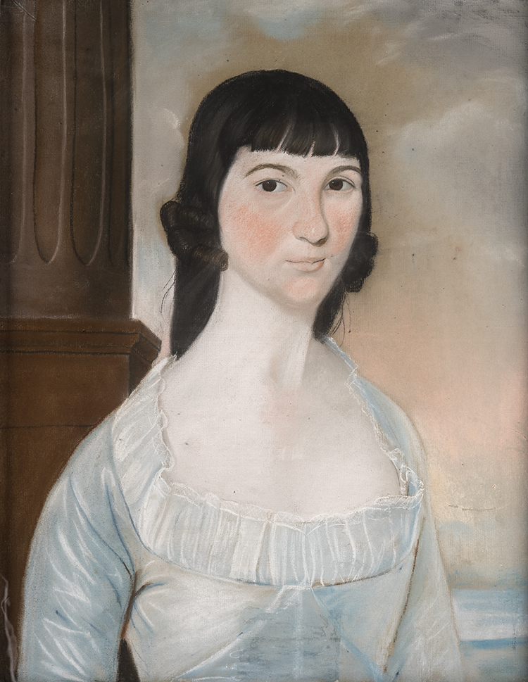 Artist/Maker:Williams, William Joseph Place Made:Culpeper County Virginia United States of America Date Made:1793-1794 Medium:pastel on paper –canvas Dimensions:HOA: 21 5/8; WOA: 17 Accession Number:2961.2